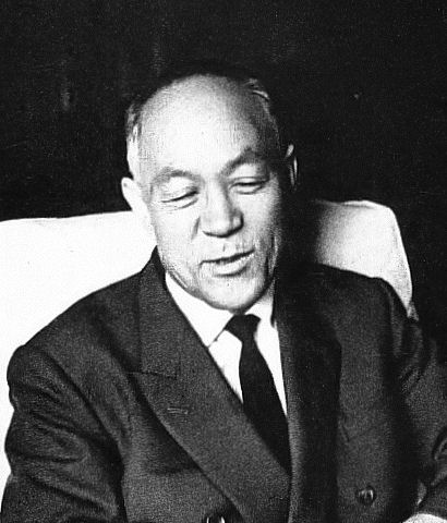 Kisaburo Yokota